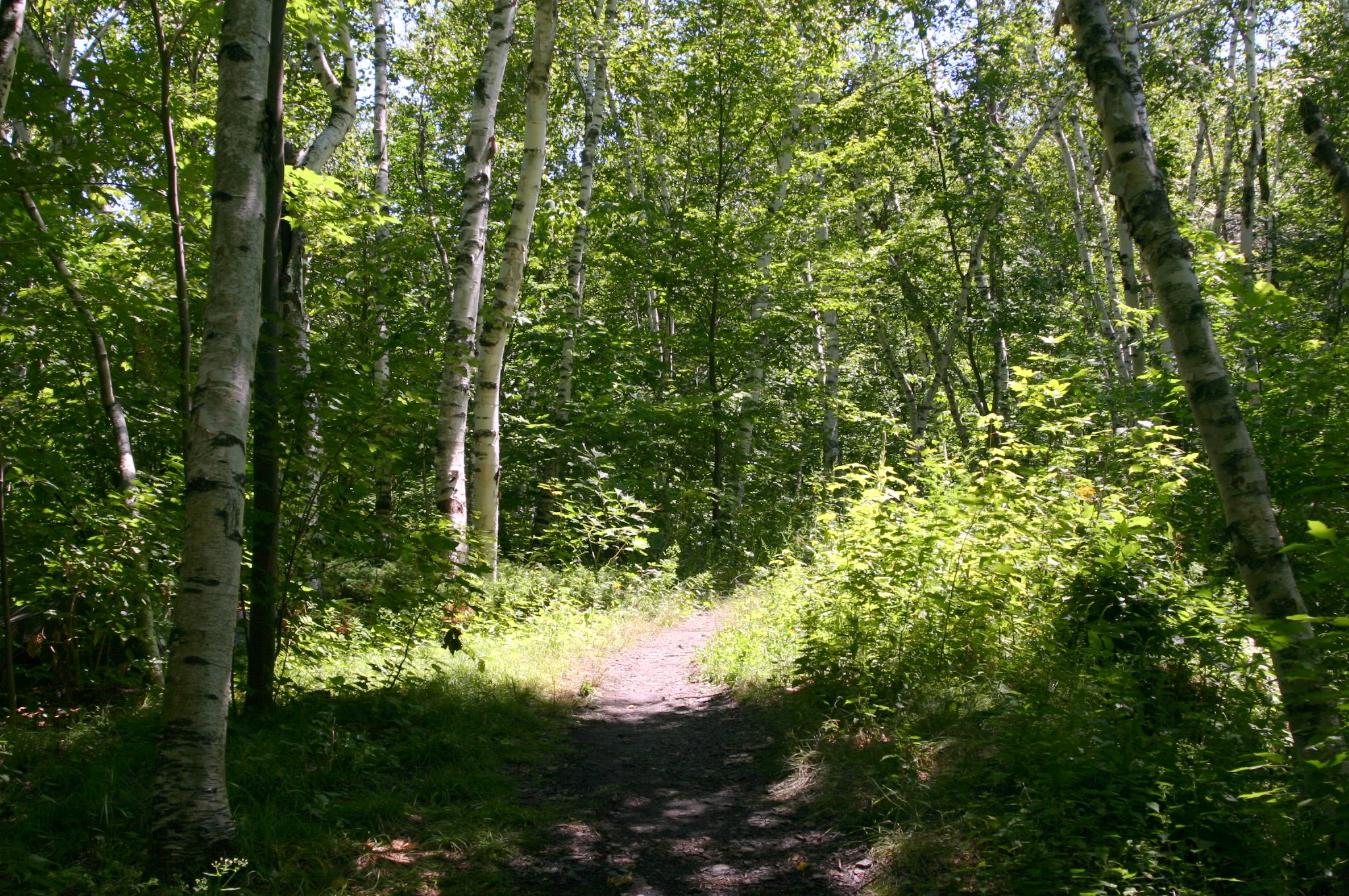 Quarry_trail_2718